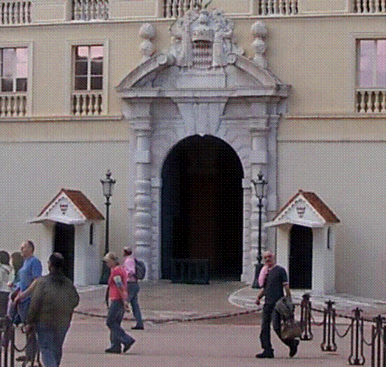 Detail from Image:Panorama schloss monaco.jpg uploaded to commons by . Berthold Werner here Image:Panorama schloss monaco.jpg.